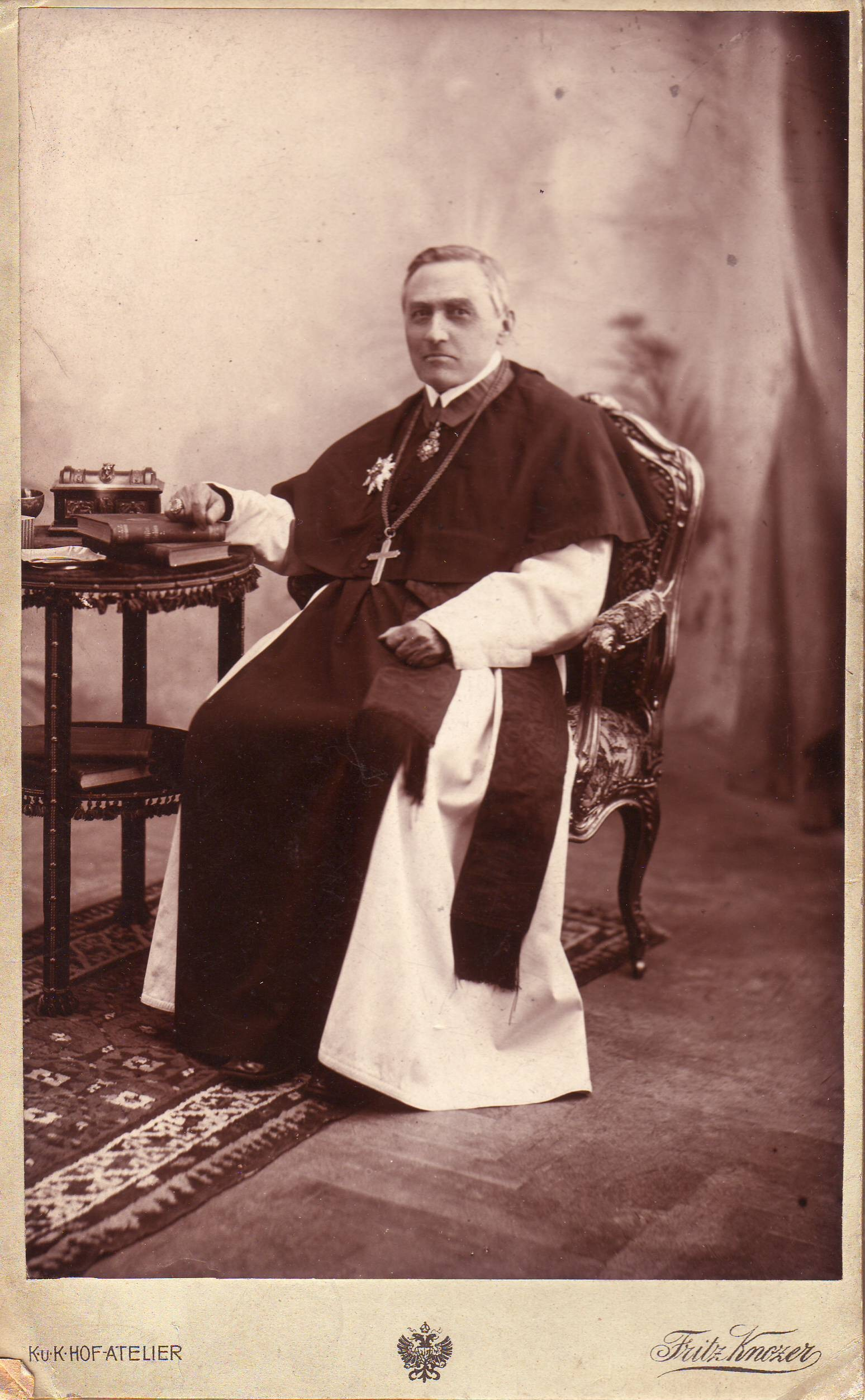 Heinrich Grünbeck was Abbot of Heiligenkreuz in Lower Austria from 1879 until his death in 1902.